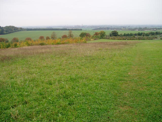 Magog Down A moderately hilly area of grassland to the south-east of Cambridge, with good views over the city on sunnier days than this one. The double chimney of Addenbrookes Hospital can just be made out on the skyline.